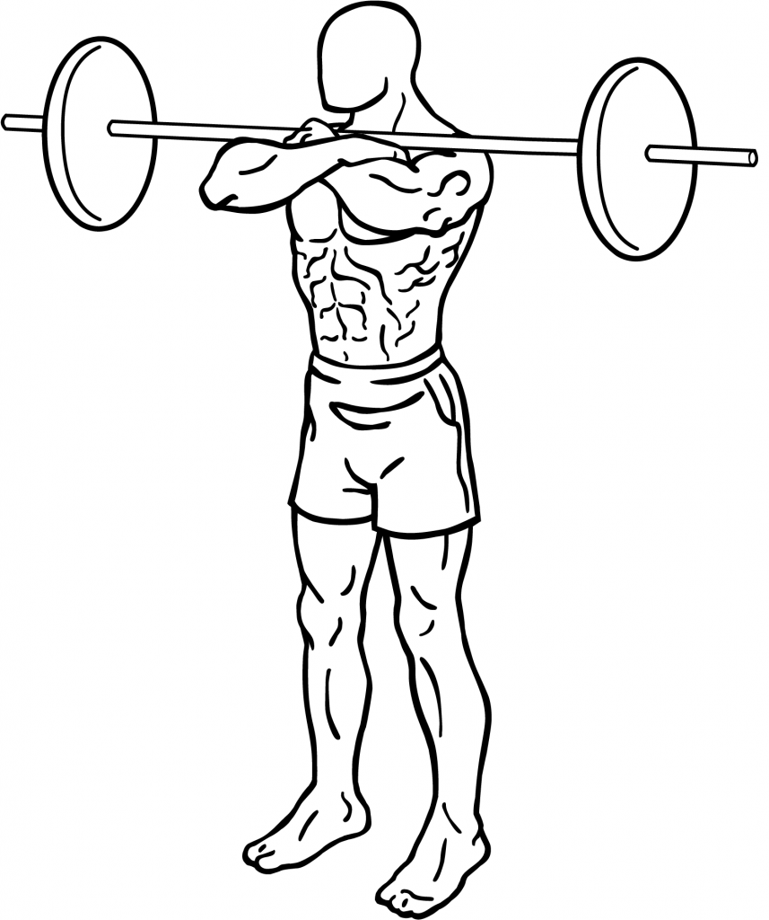 an exercise of thigh